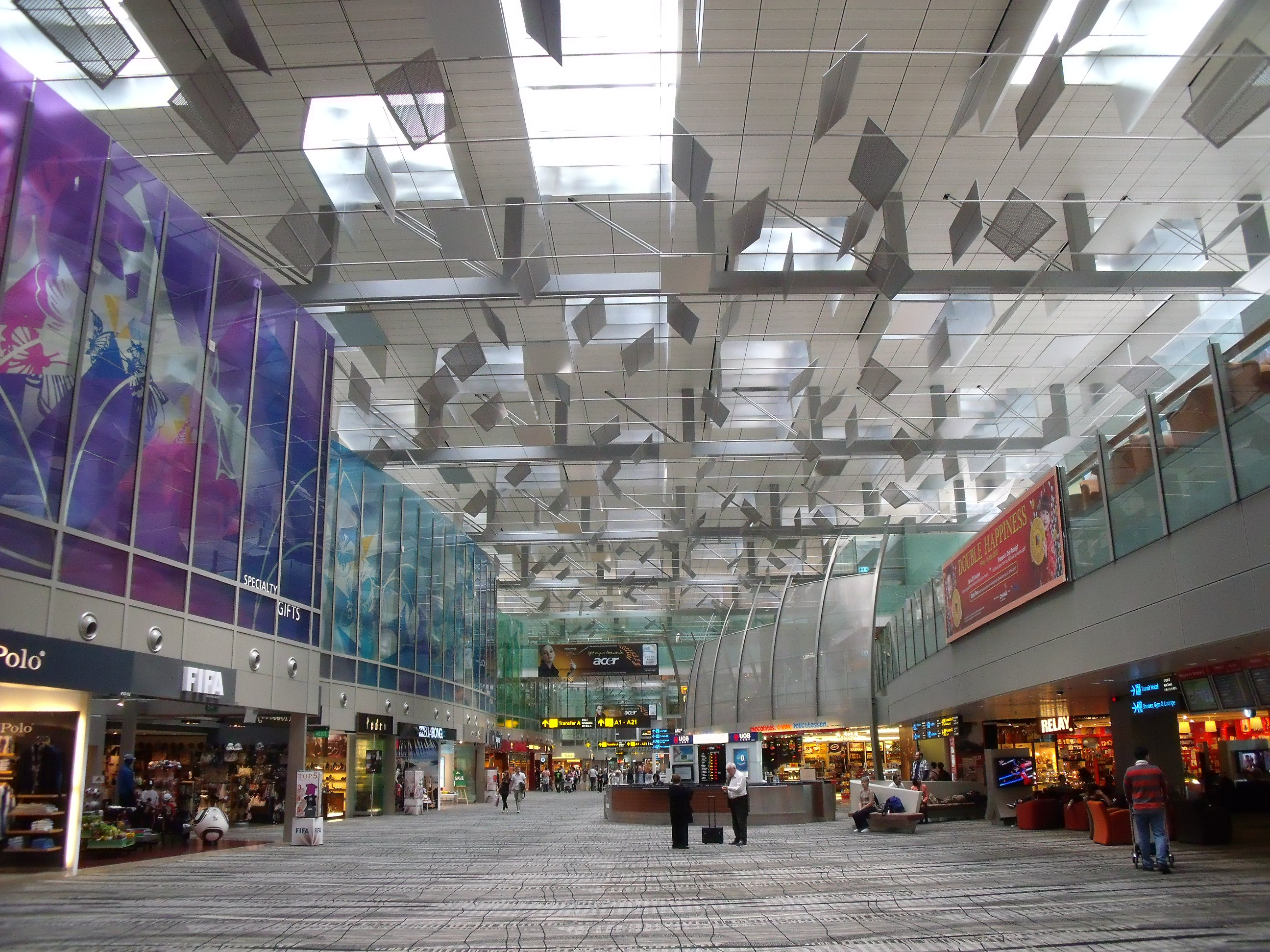 Transit area of T3, Changi Airport, Singapore.